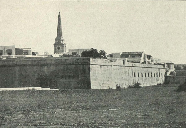 A fort dates from 1639, and has witnessed many reverses. The fortifications, as they now remain, were completed in 17878